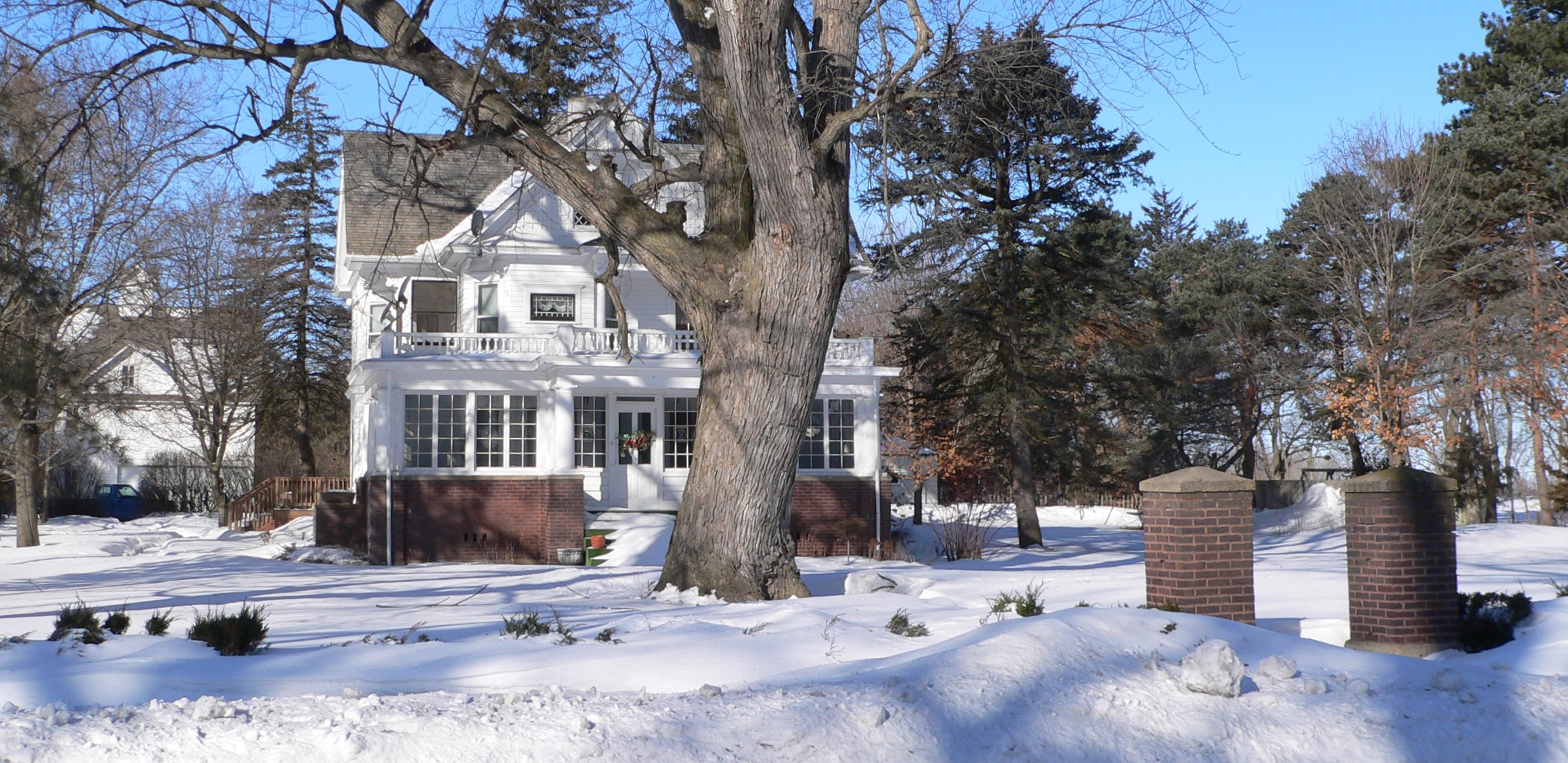 John Wesley and Grace Shafer Warrick House in Meadow Grove, Nebraska; seen from the east. The Queen Anne house was built in 1903. It is listed in the National Register of Historic Places. The carriage house in the left background and the two brick pillars in the right foreground are included in the Register listing.